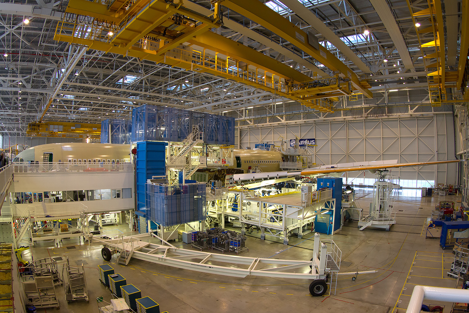 Airbus A350-941 on the assembly line in Toulouse. This airframe is for delivery to Finnair